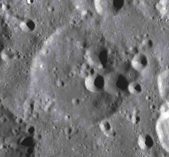 Congreve lunar crater - LAC-69 and LAC-87 mosaic